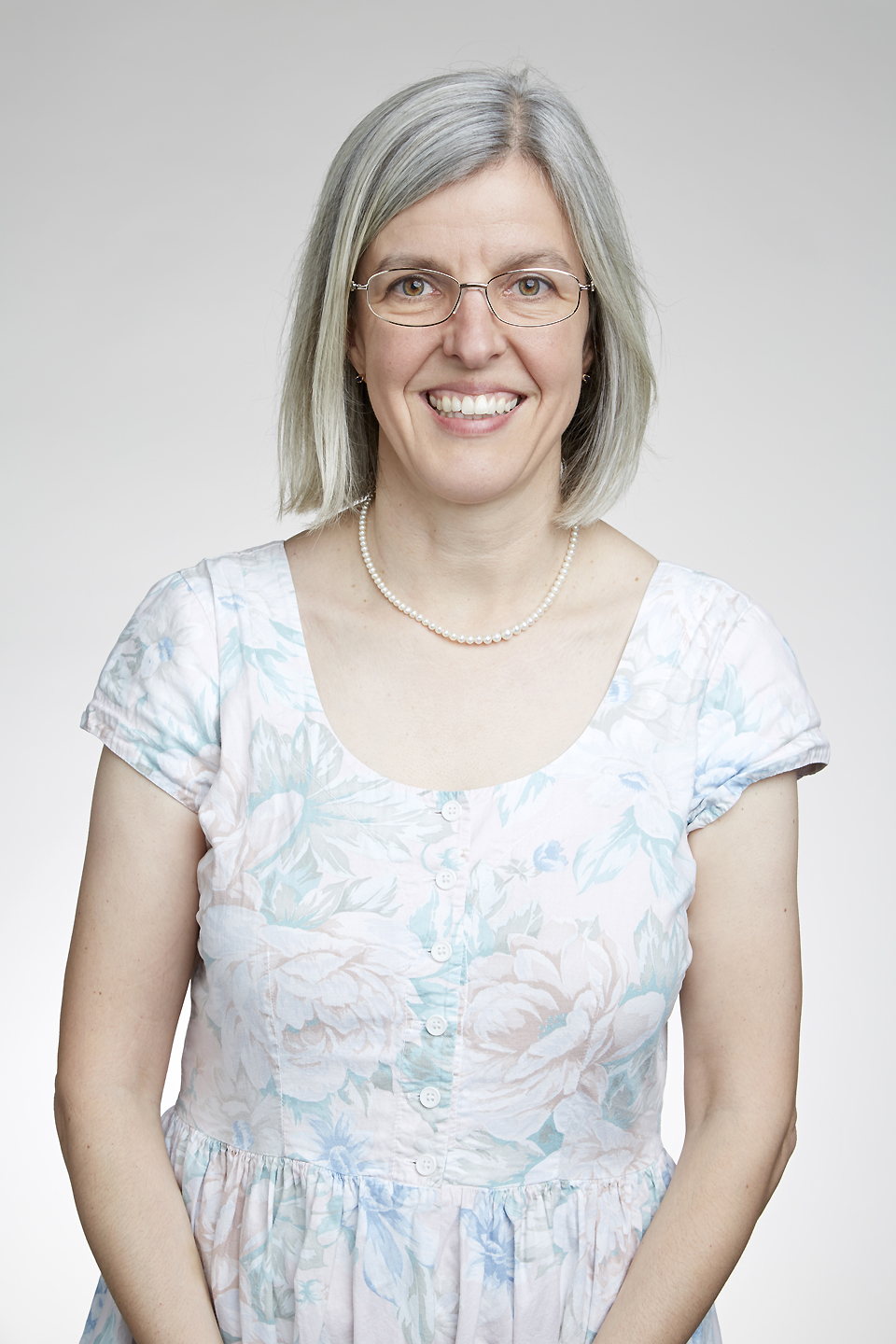 Christl Ann Donnelly FRS is a Professor of Statistical Epidemiology at Imperial College London. Attribution: The Royal Society